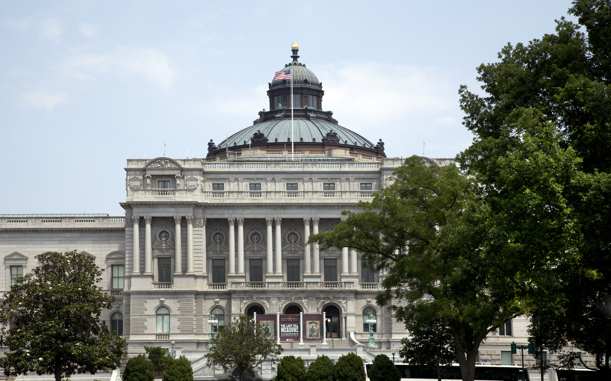 Thomas Jefferson Building by Carol M. Highsmith